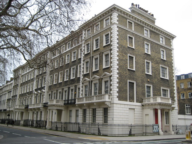 Bloomsbury: Percival David Foundation of Chinese Art This handsome Georgian townhouse at the south eastern corner of Gordon Square is the home of the Percival David Foundation of Chinese Art. Percival David (1892-1964) was a collector of Chinese porcelain, and presented his collection to the University of London in 1950. The exhibition is now administered by the School of Oriental and African Studies (SOAS) of the University. There are several links, including one from the SOAS website, to a website for the foundation here although at the time of writing this link is not working. Perhaps this is a temporary problem so I will leave the link in.